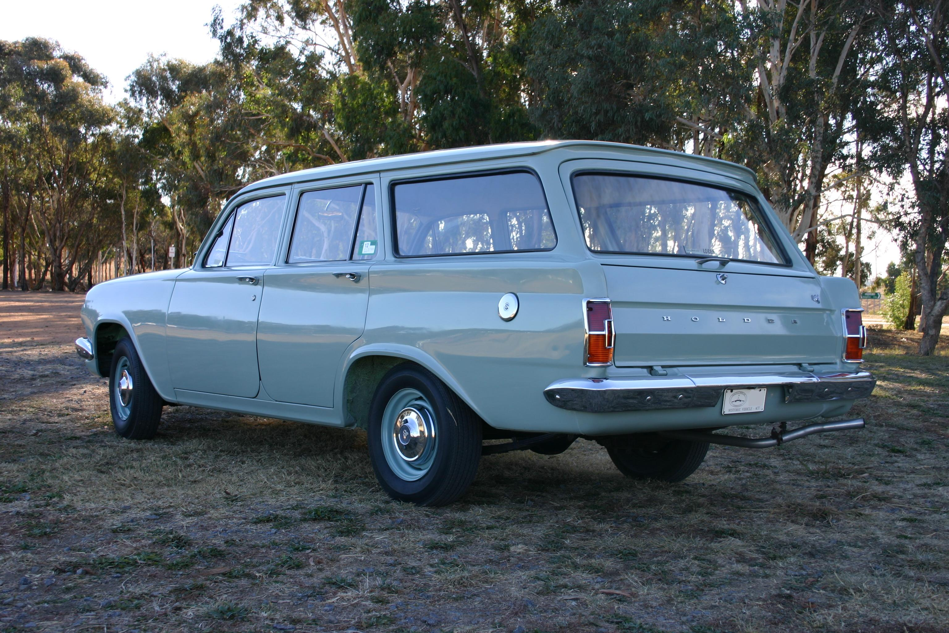 1963–1965 Holden EH Standard Station Sedan (179 cu in engine, manual transmission) station sedan, photographed in Australia.